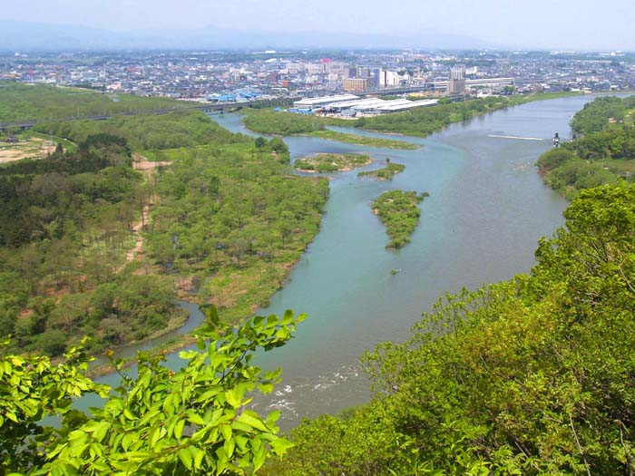 The Waga River (left) empties into the Kitakami River in Kitakami City, Japan.